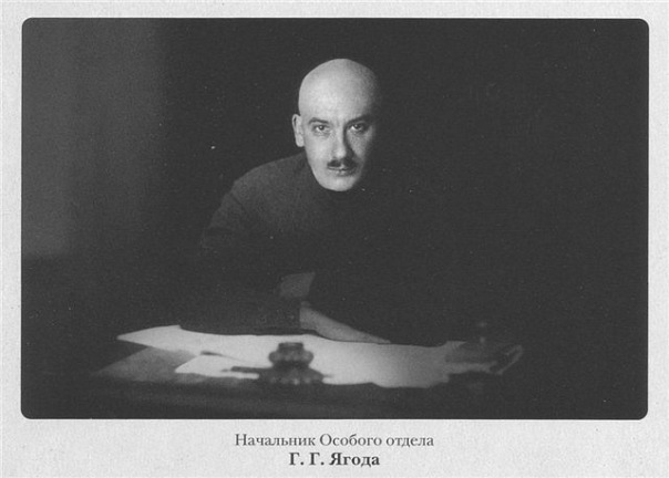 Genrikh Yagoda in his office